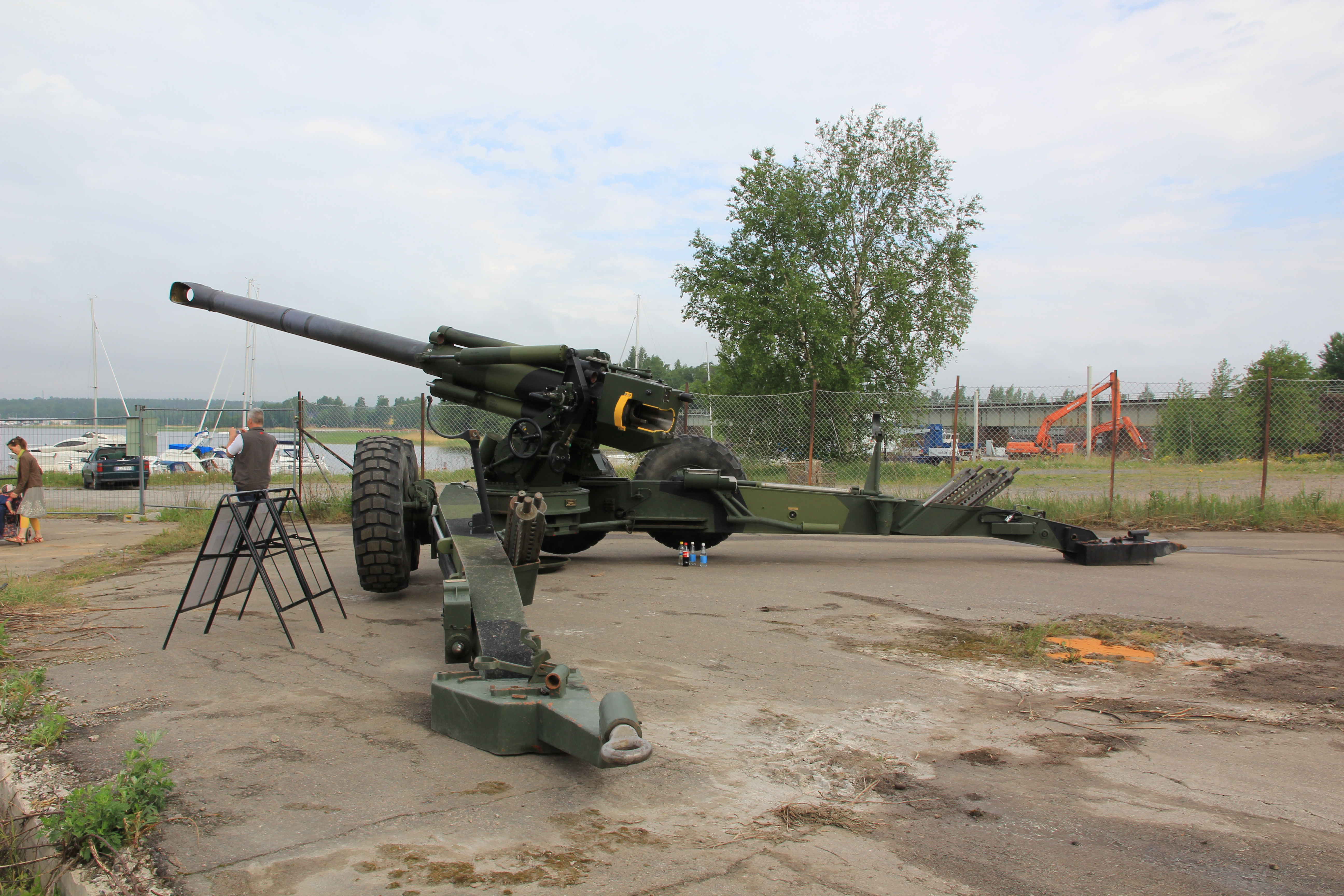 Towed 155 K 83-97 heavy cannon on display during Finnish Defence Forces 2013 Flag day in Ekenäs harbour.